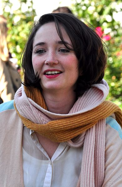 Actress Stine Fischer Christensen attends press interviews at the 19th Hamptons International Film Festival on October 15, 2011 at the Maidstone Hotel in East Hampton, New York. (Photo © Nick Stepowyj)